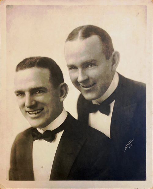 Gorman Bros portrait